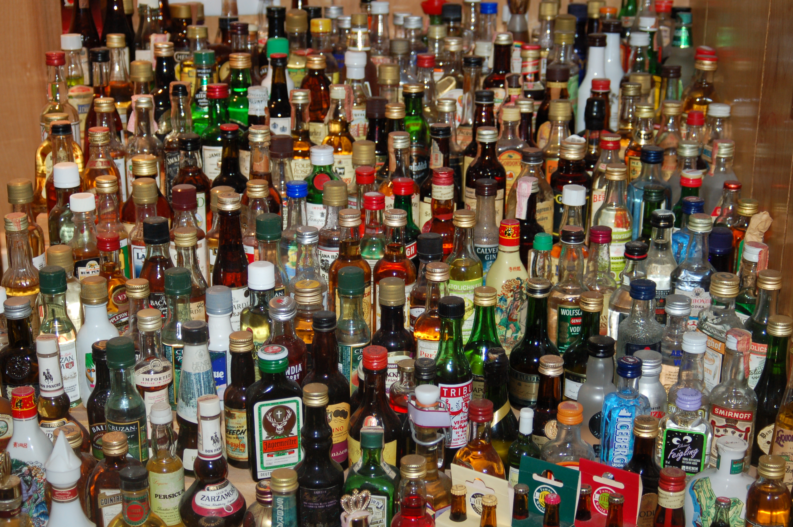 several liquor bottles